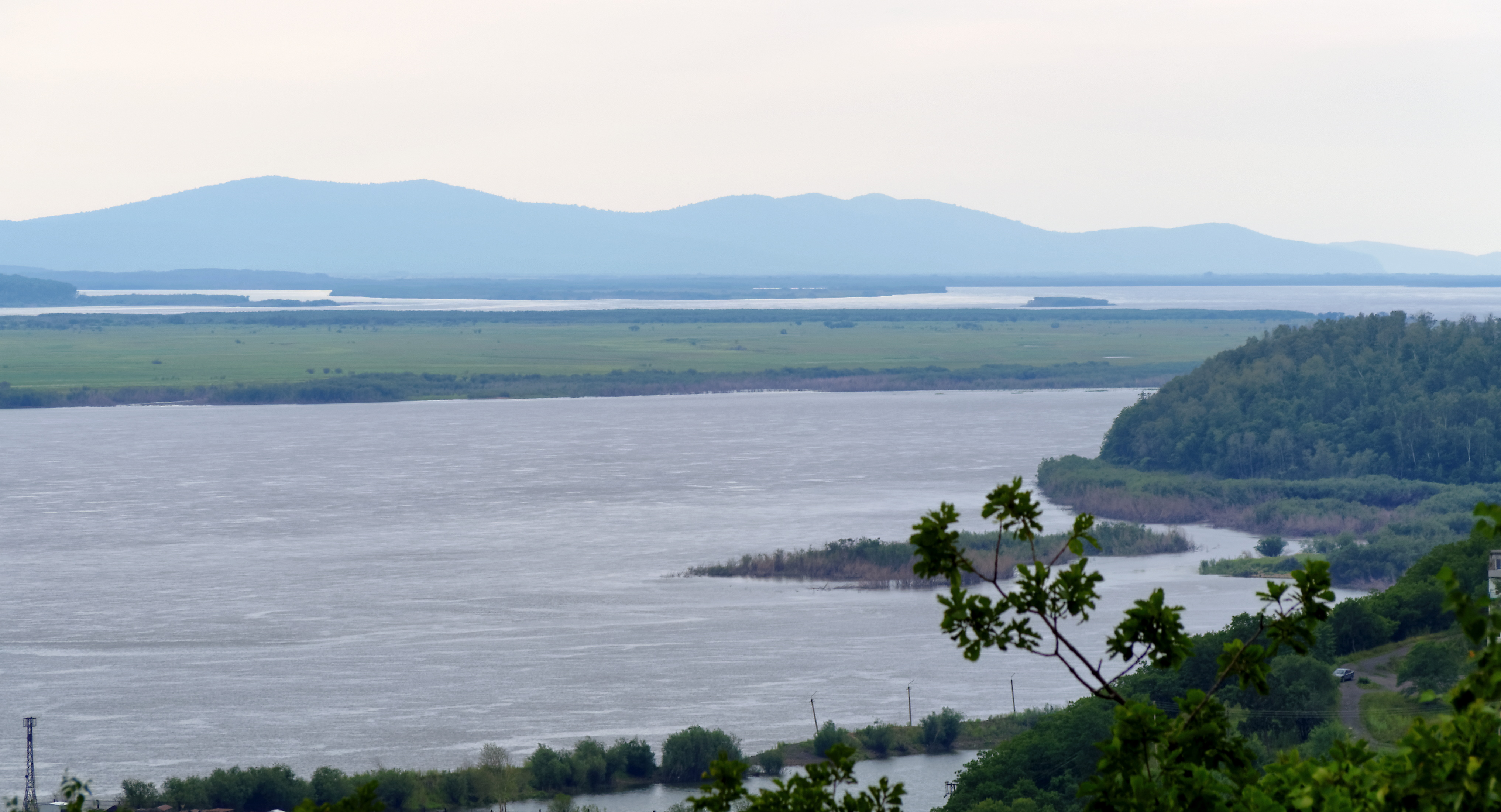 Amursk. Amur River